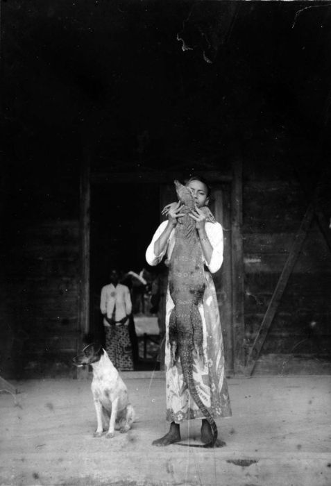 Javanese boy, Gangsar, posing with an monitor lizard (most likely Varanus salvator, probably subspecies macromaculatus) 1 meter 77 long and weighing twelve kilograms, Ngandong